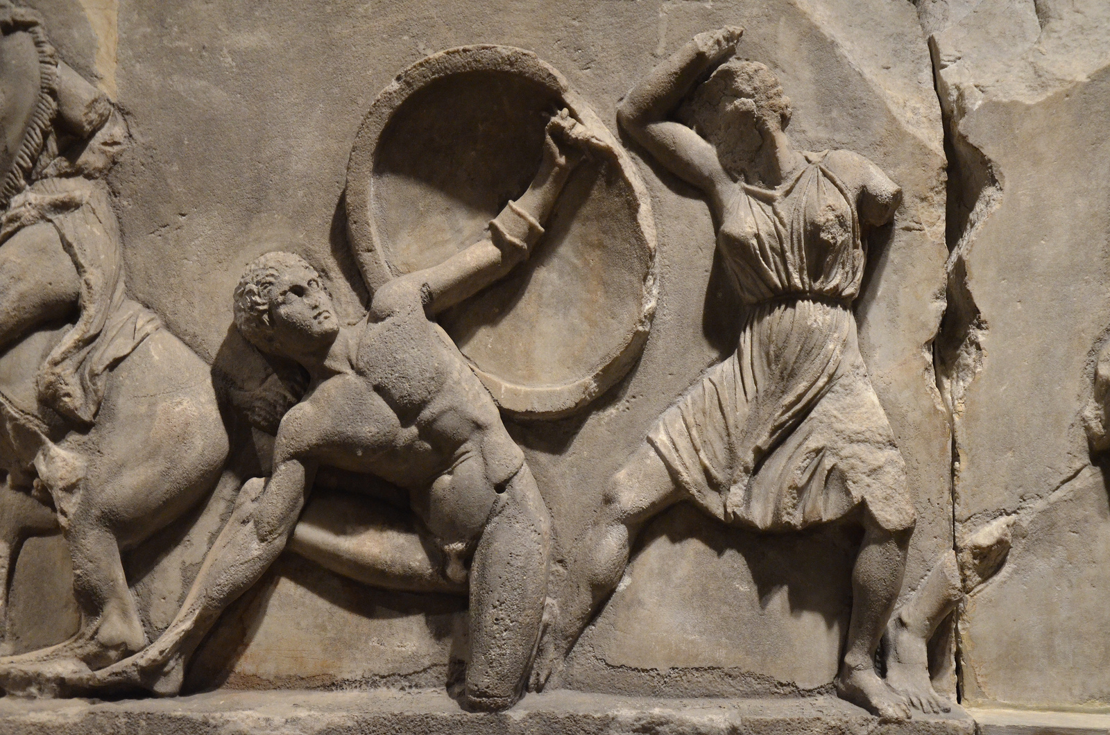 Detail of the Amazon Frieze from the Mausoleum at Halicarnassus: combats between Amazons and Greeks.